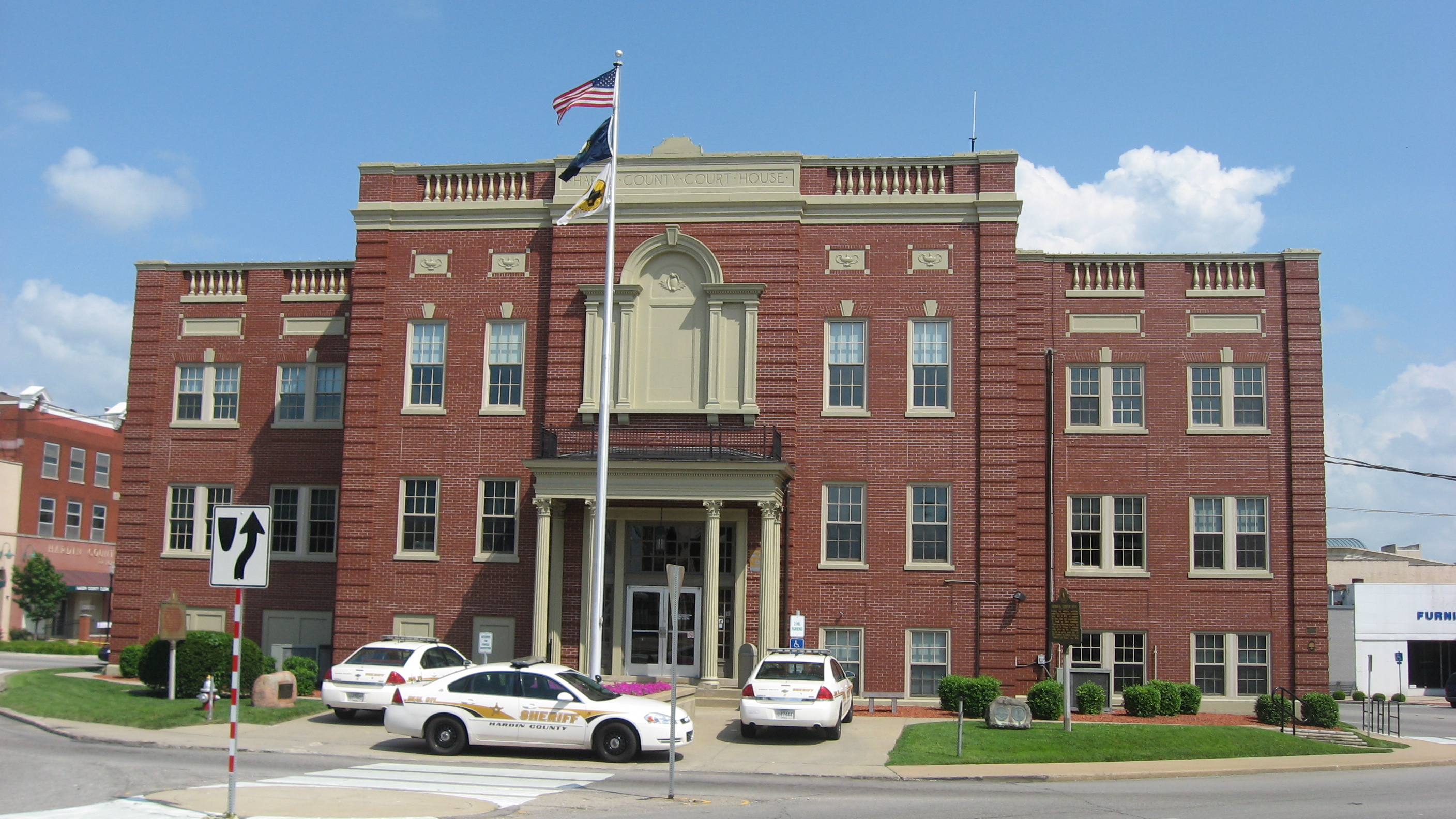 Western front of the Hardin County Courthouse, located at the center of Courthouse Square in Elizabethtown, Kentucky, United States. Built in 1933, it is part of the Elizabethtown Courthouse Square and Commercial District, a historic district that is listed on the National Register of Historic Places.